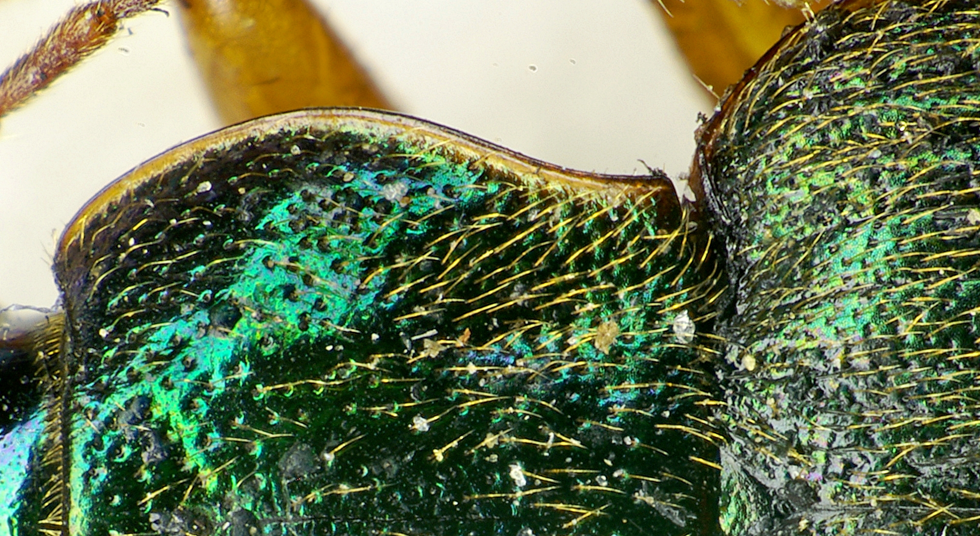 right half of pronotum of Chlaeniellus vestitus